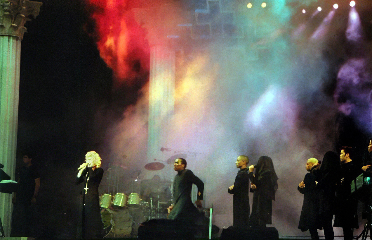 Photo taken by a fan during one of the 1990 concerts